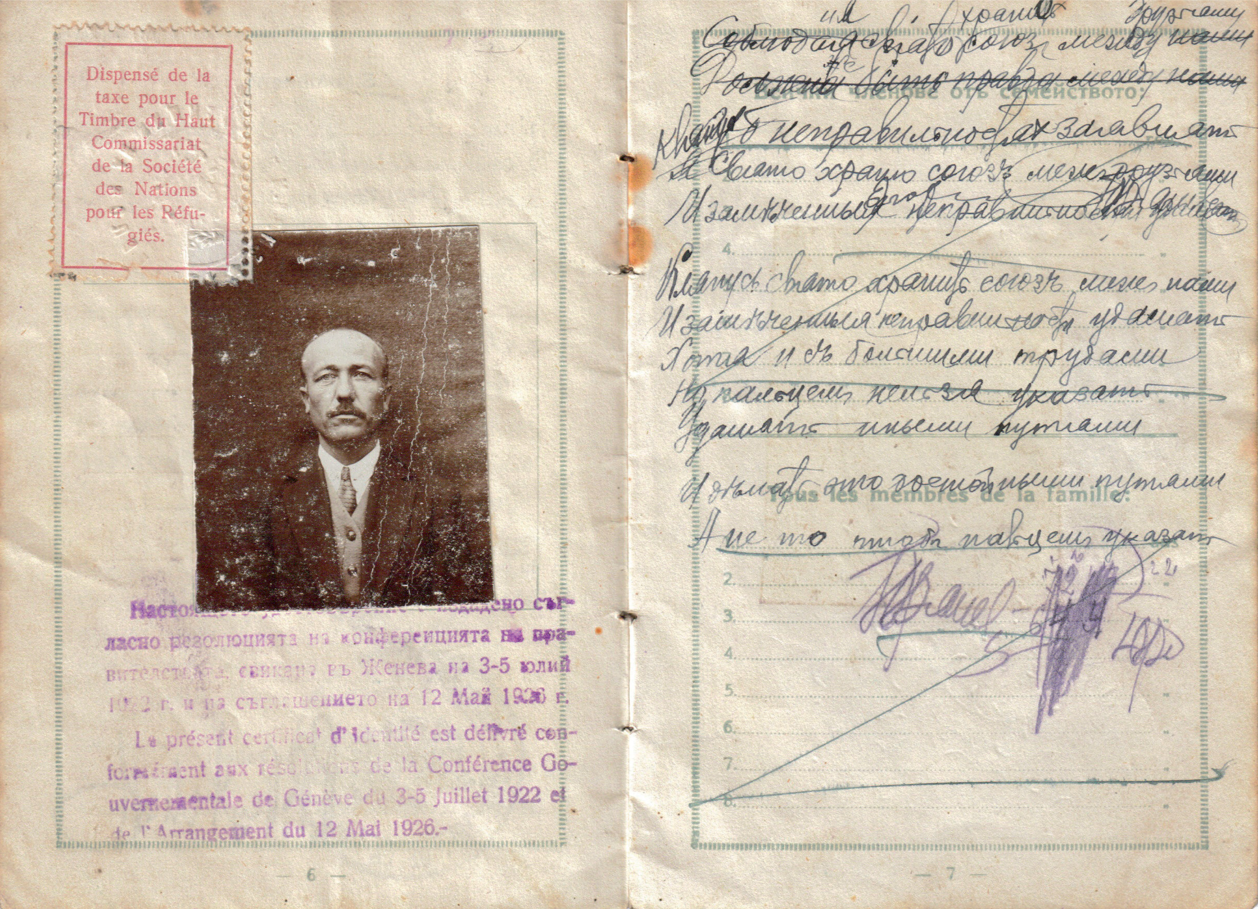 Nansen passport picture